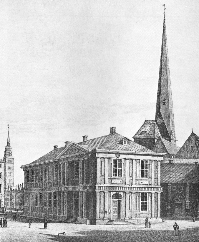 at the Liebfrauenkirchhof in Bremen, built by Jean Baptiste Broebes in 1695 and amplified in 1736 by Giselher von Warneck.